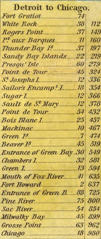 This image (generated from lists the stops taken along the steamboat route between Detroit and Chicago via Michilimackinac.